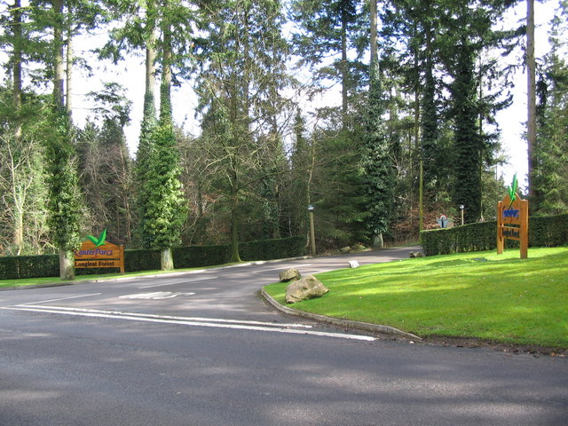 Center Parcs. A view looking east to the main entrance to the Center Parcs resort in the Longleat Forest.